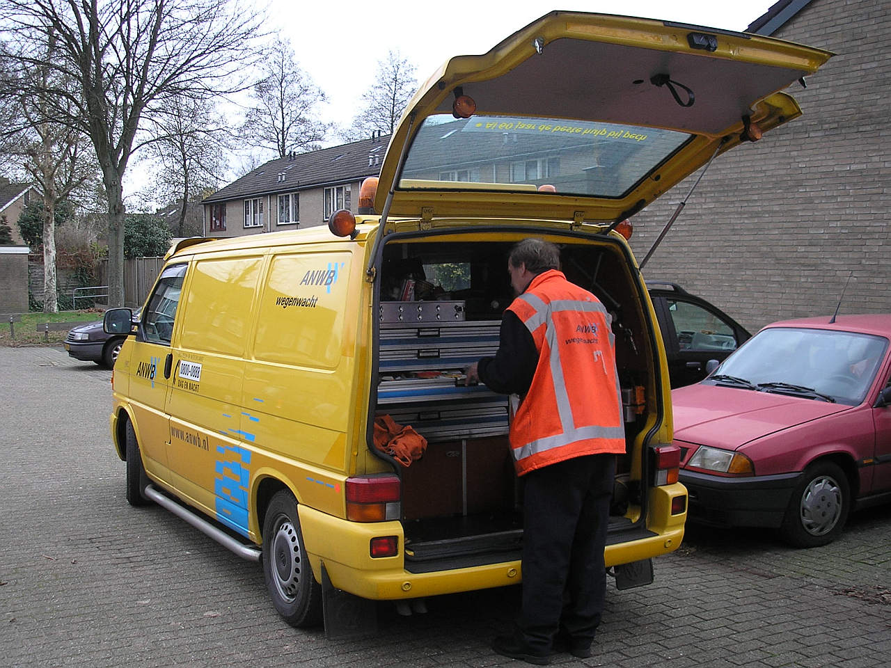 VW-Van in use by dutch "Wegenwacht". Location: Hengelo (Overijssel), Netherlands